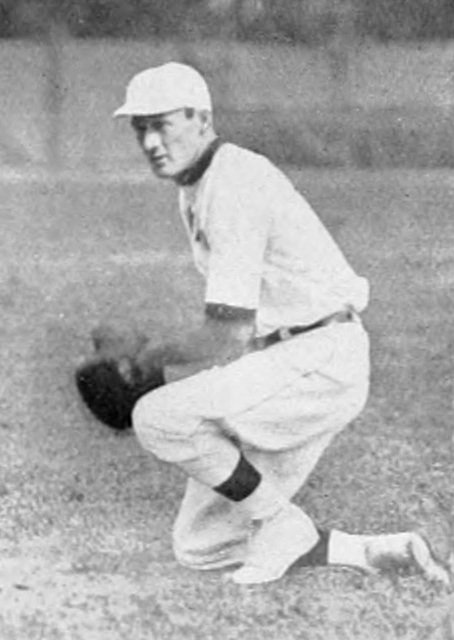 BASEBALL MATCH, U. S. A. v. SWEDEN at the 1912 Summer Olympics. BLANCHARD at 1:st base